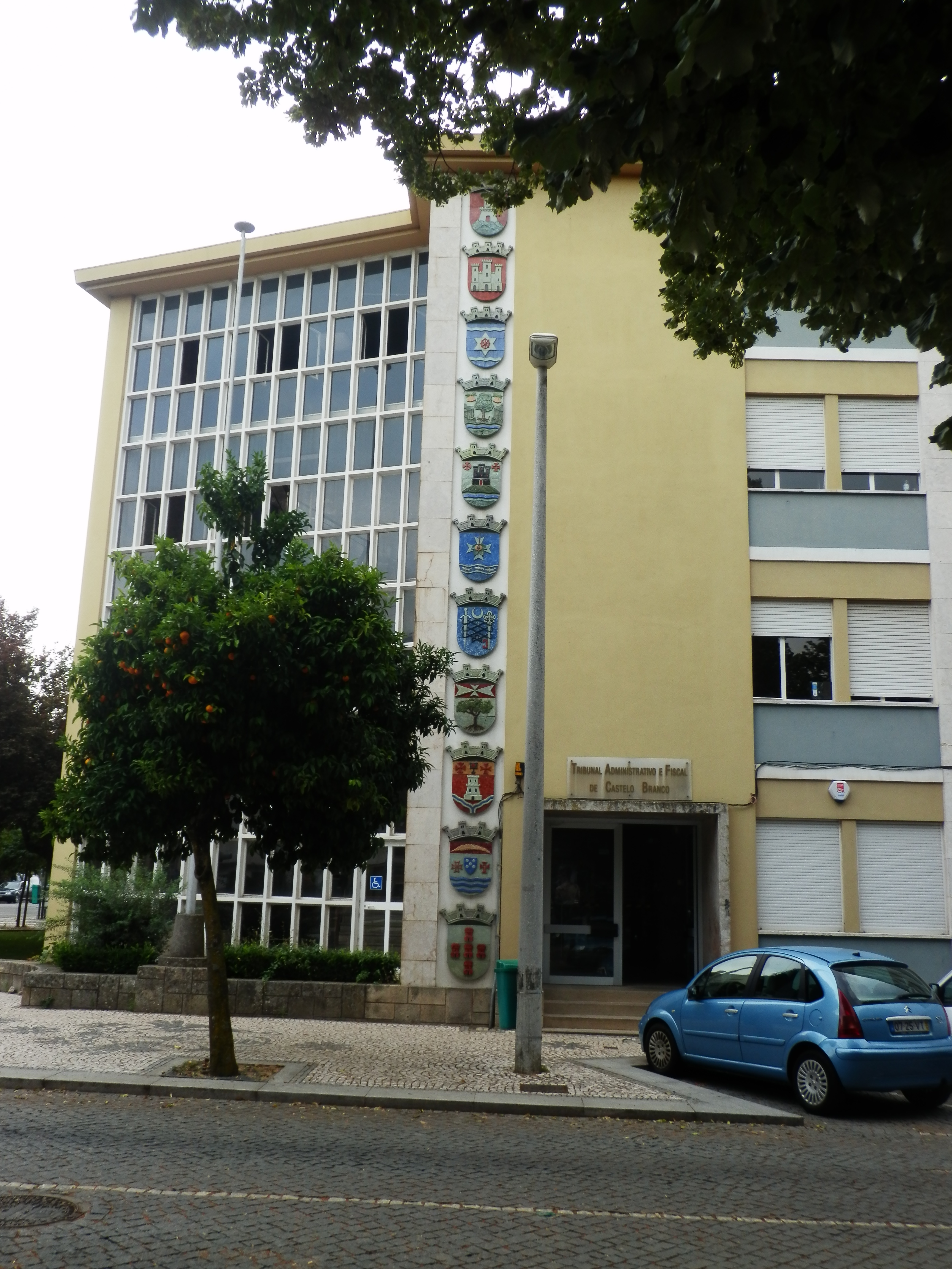 Tribunal Administrativo e Fiscal de Castelo Branco